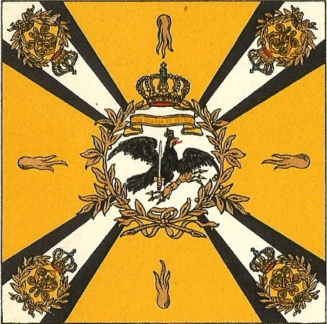 Flag of the Line Infantry regiments wearing yellow epaulettes except the bataillons of the jäger